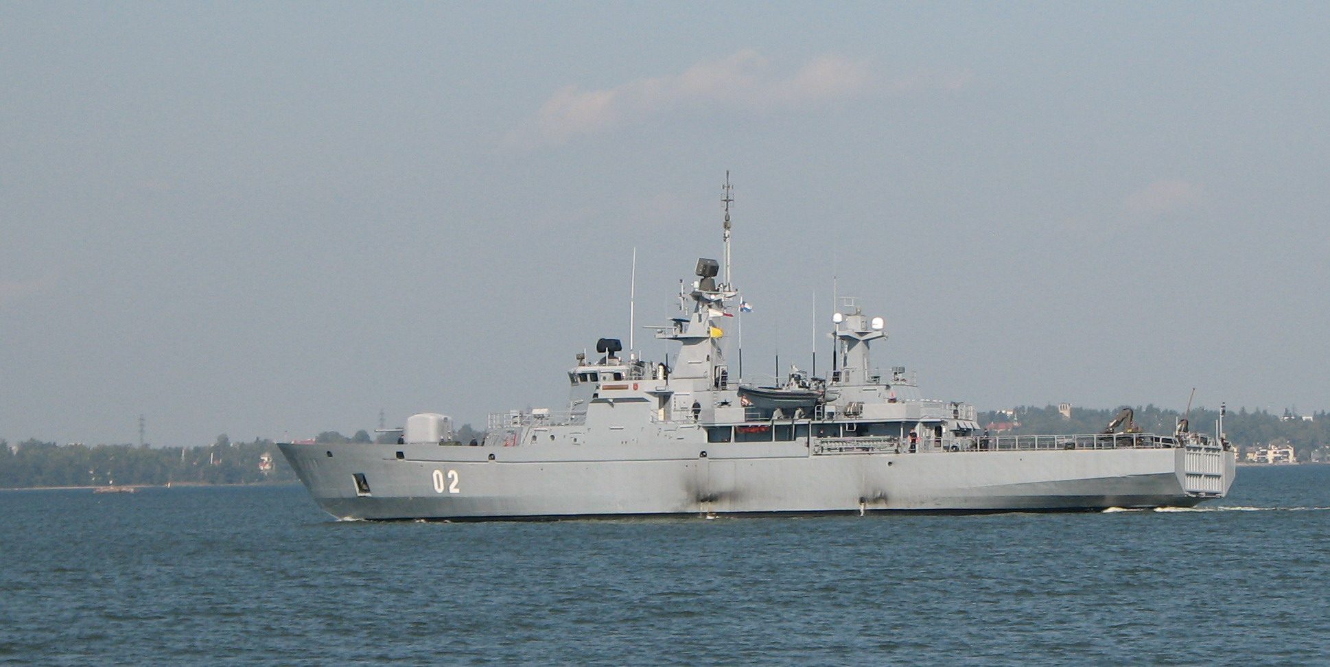 Minelayer Hämeenmaa of the Finnish Navy